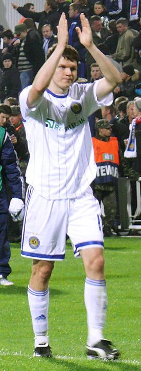 Taras Mykhalyk photo